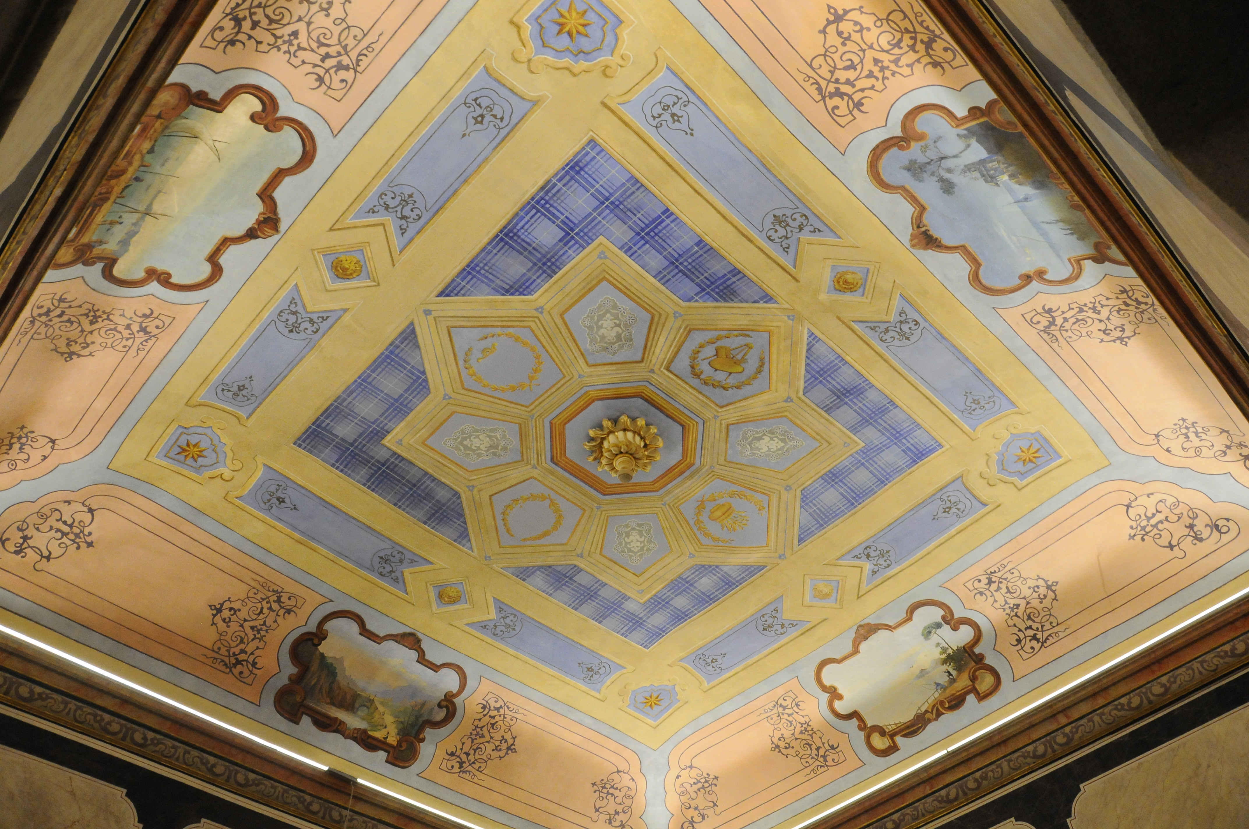 Ceiling in Raio Palace, in Braga, Portugal.